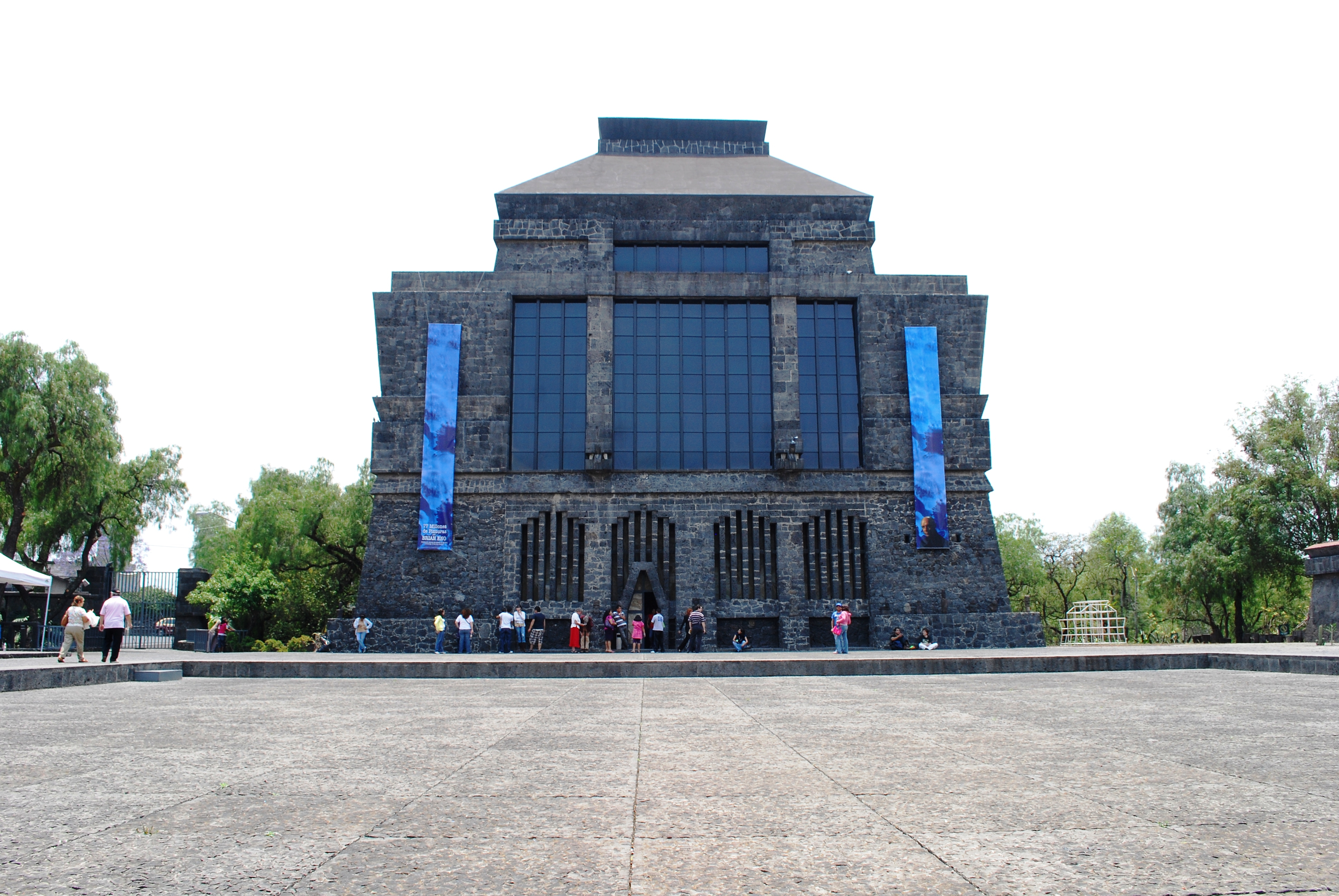 View of the main facade of the Anahuacalli Museum in Mexico City